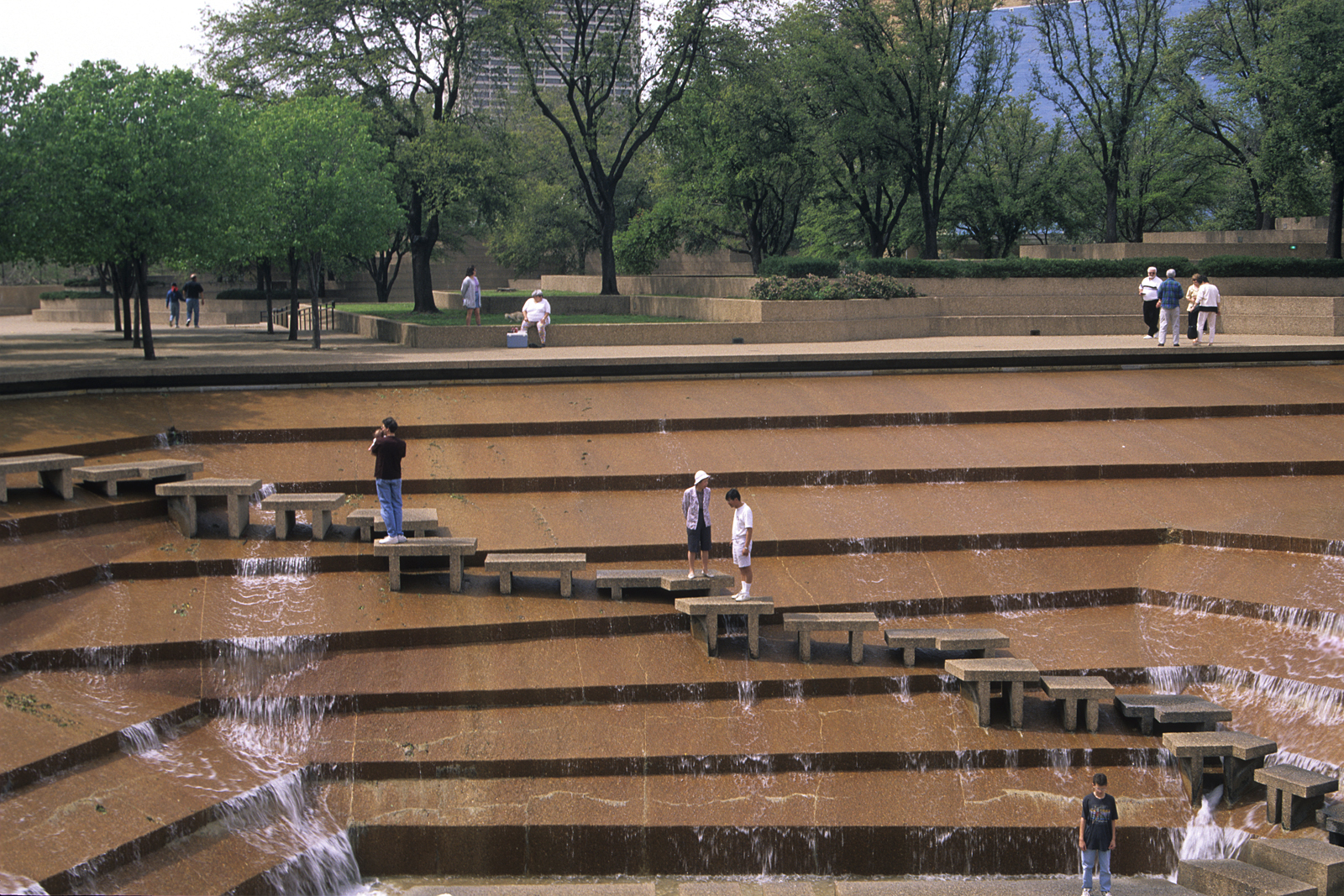 Fort Worth Water Garden